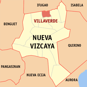 Map of Nueva Vizcaya showing the location of Villaverde